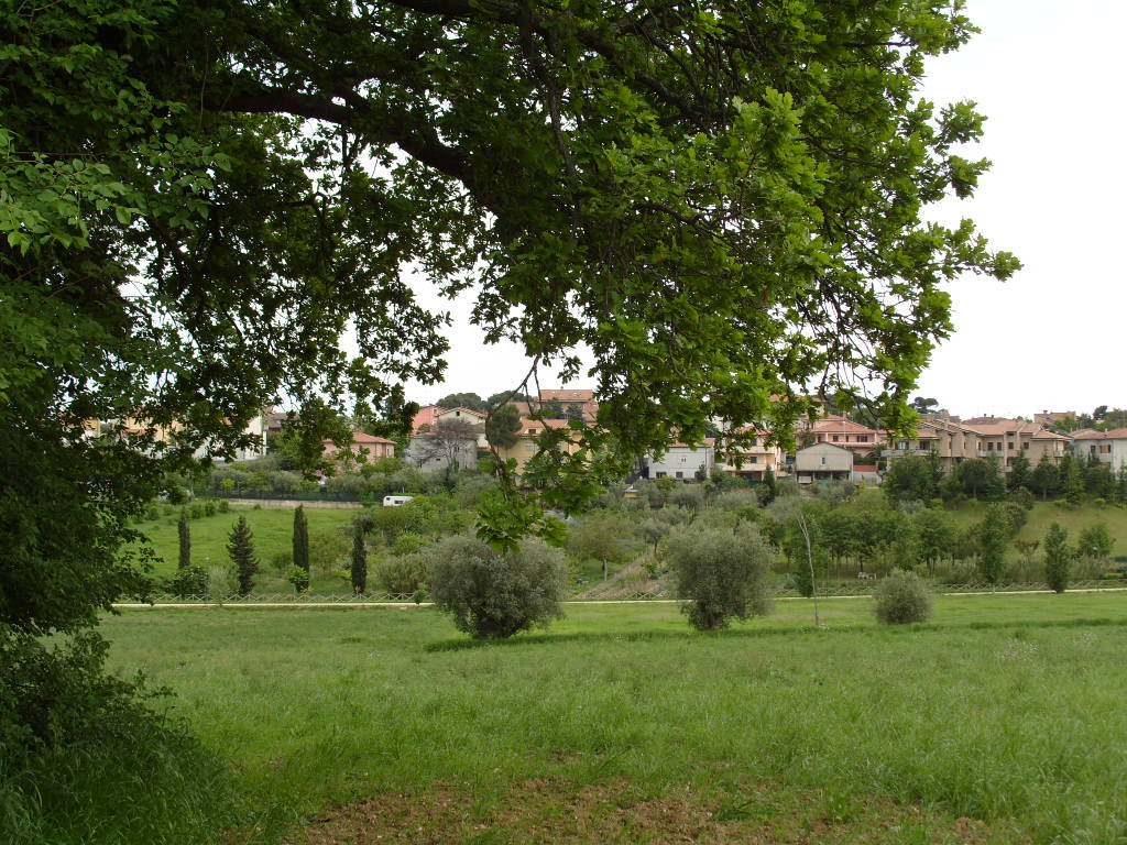 This is a view from a field near the bicycle track of Civitanova Marche